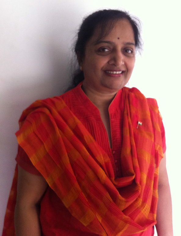 Anuradha T K